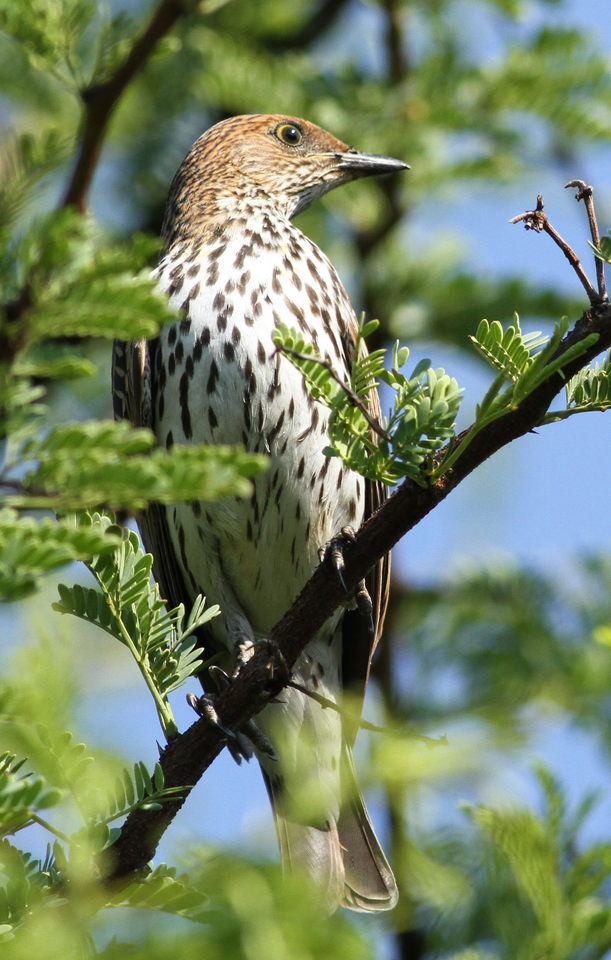 Violet-backed Starling Cinnyricinclus leucogaster, female, at Pilanesberg National Park, Northwest Province, South Africa